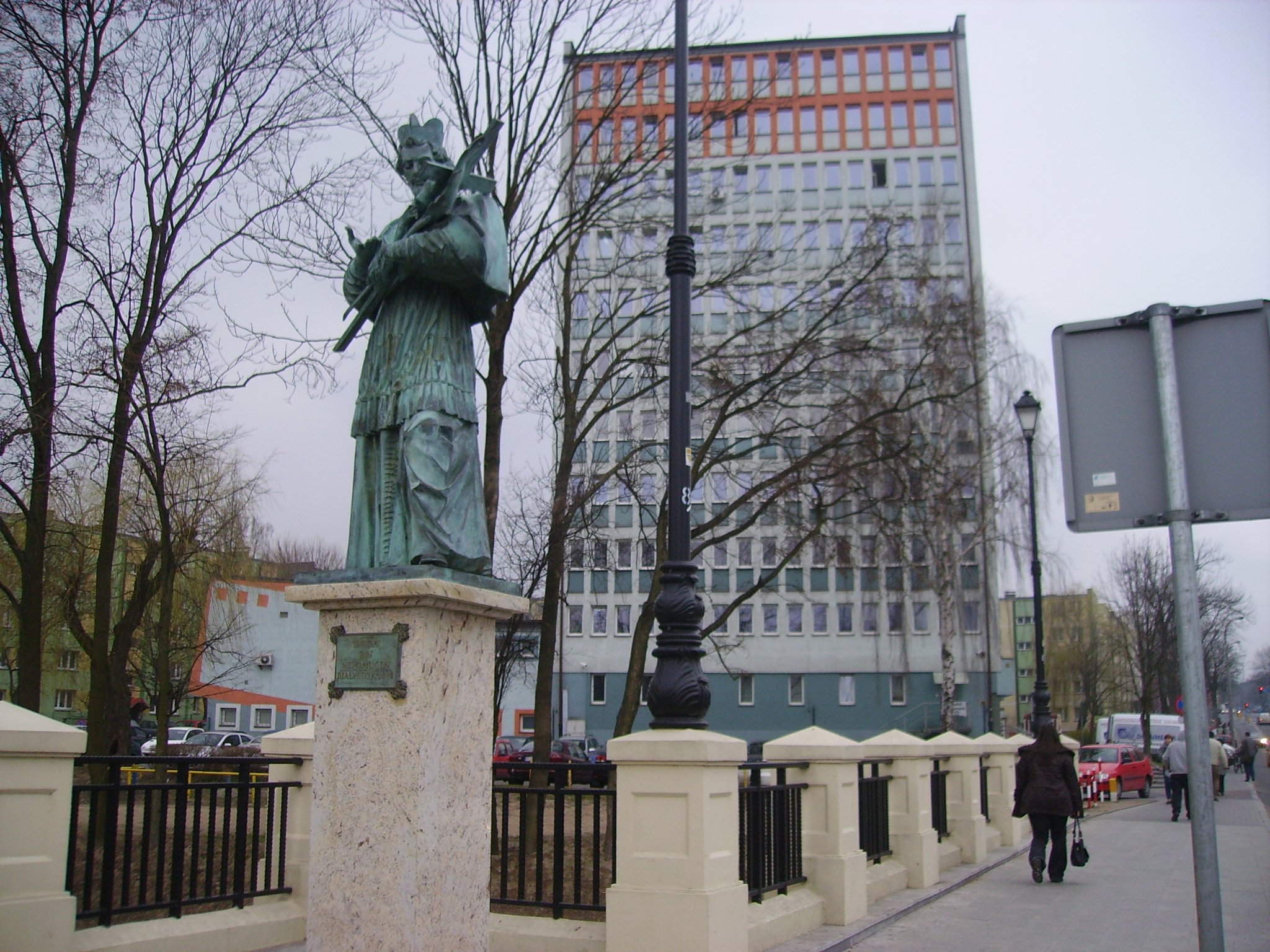 Statue of John of Nepomuk in Bialystok (Świętojańska - St. John's Street) at the Biała (White) River bridge. The first building in the background of the Tax Office.